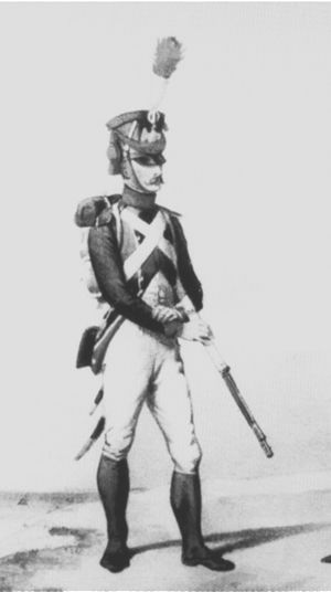 Tirailleur of the 1e Regiment Tirailleurs, of the Young Guard 1811. Source